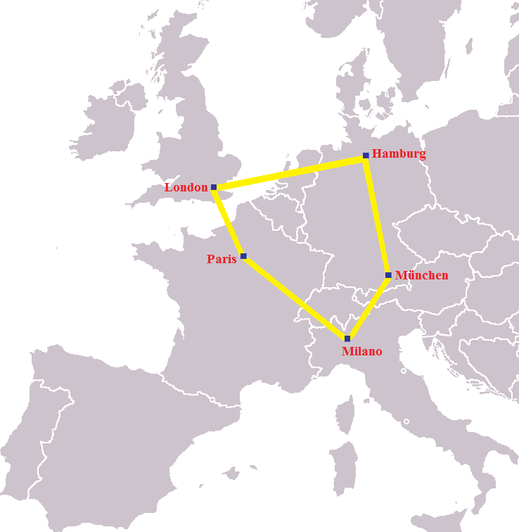 European pentagon, London-Paris-Milano-München-Hamburg